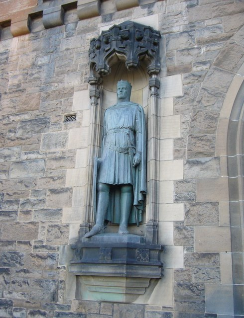 Bruce statue unveiled in 1929 on the Gatehouse of Edinburgh Castle